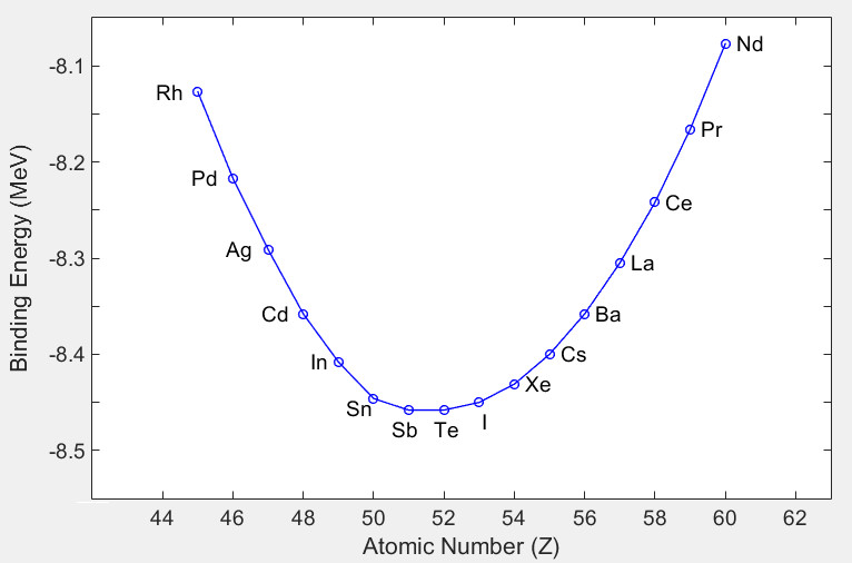 The binding energy per nucleon of nuclides with atomic mass number 125 plotted as a function of atomic number. The plot is a profile across the valley of stability.